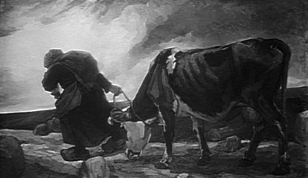 painting "le retour" from Jean Roque